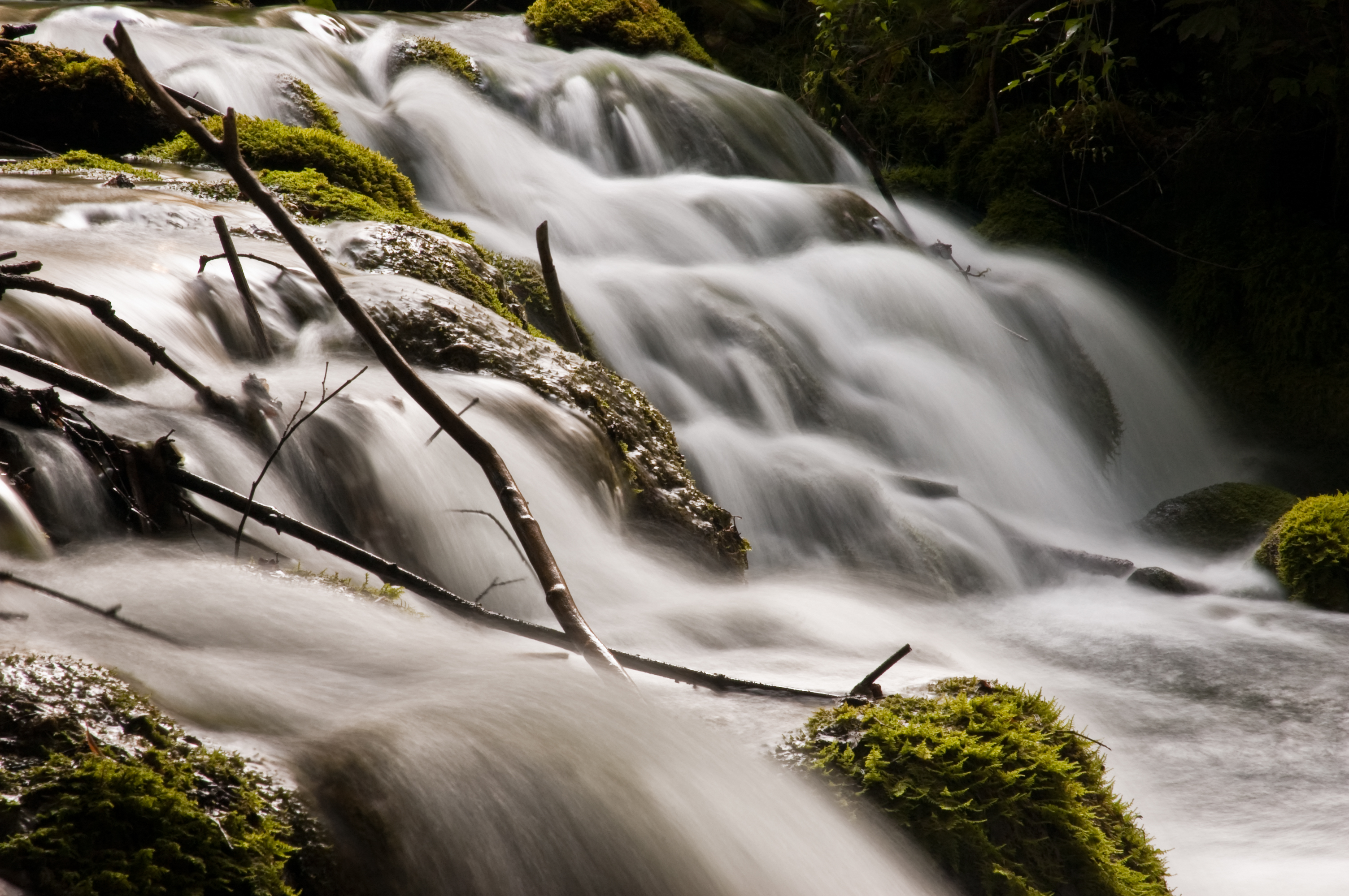 Waterfalls in Plitvicka National Park